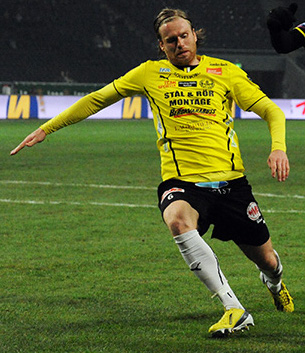 Gudmann Thorisson (cropped version)